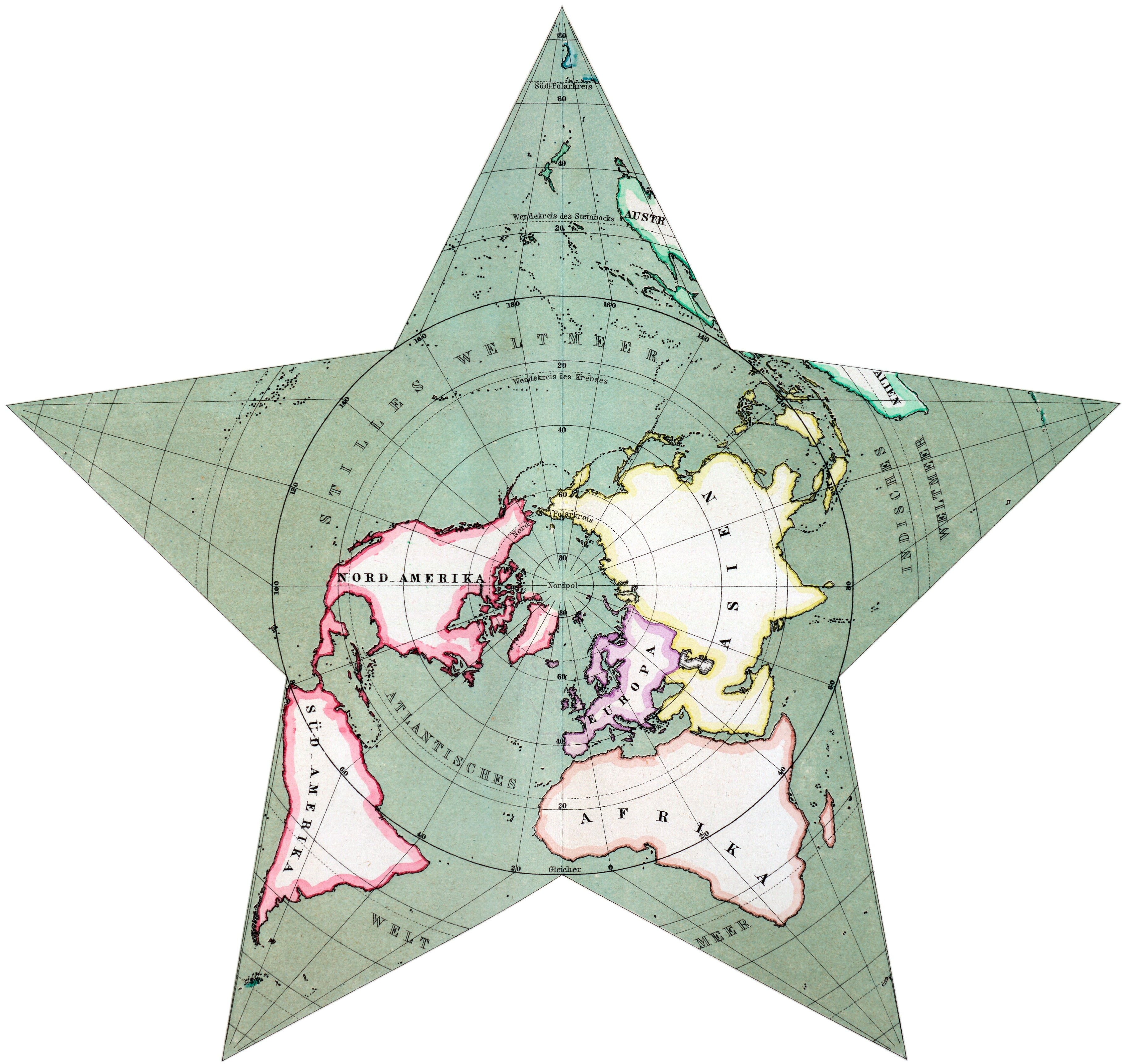 Hermann Berghaus, Map of the World in star projection, 1880. This star projection is a special kind of a map projection.